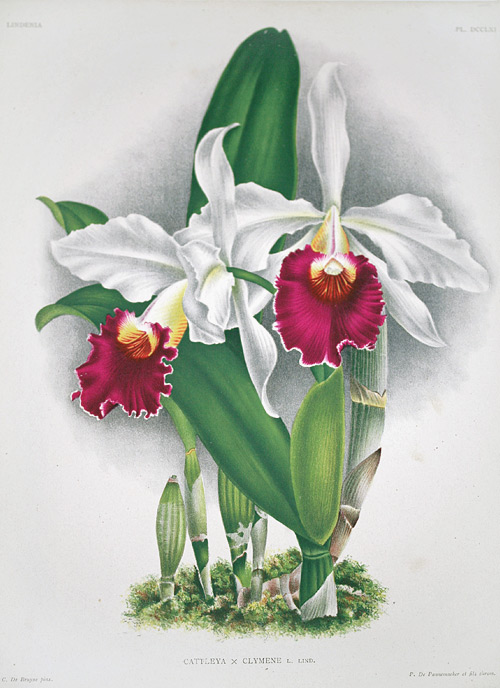 Cattleya 'Clymene' (Cattleya rex × Cattleya warscewiczii )